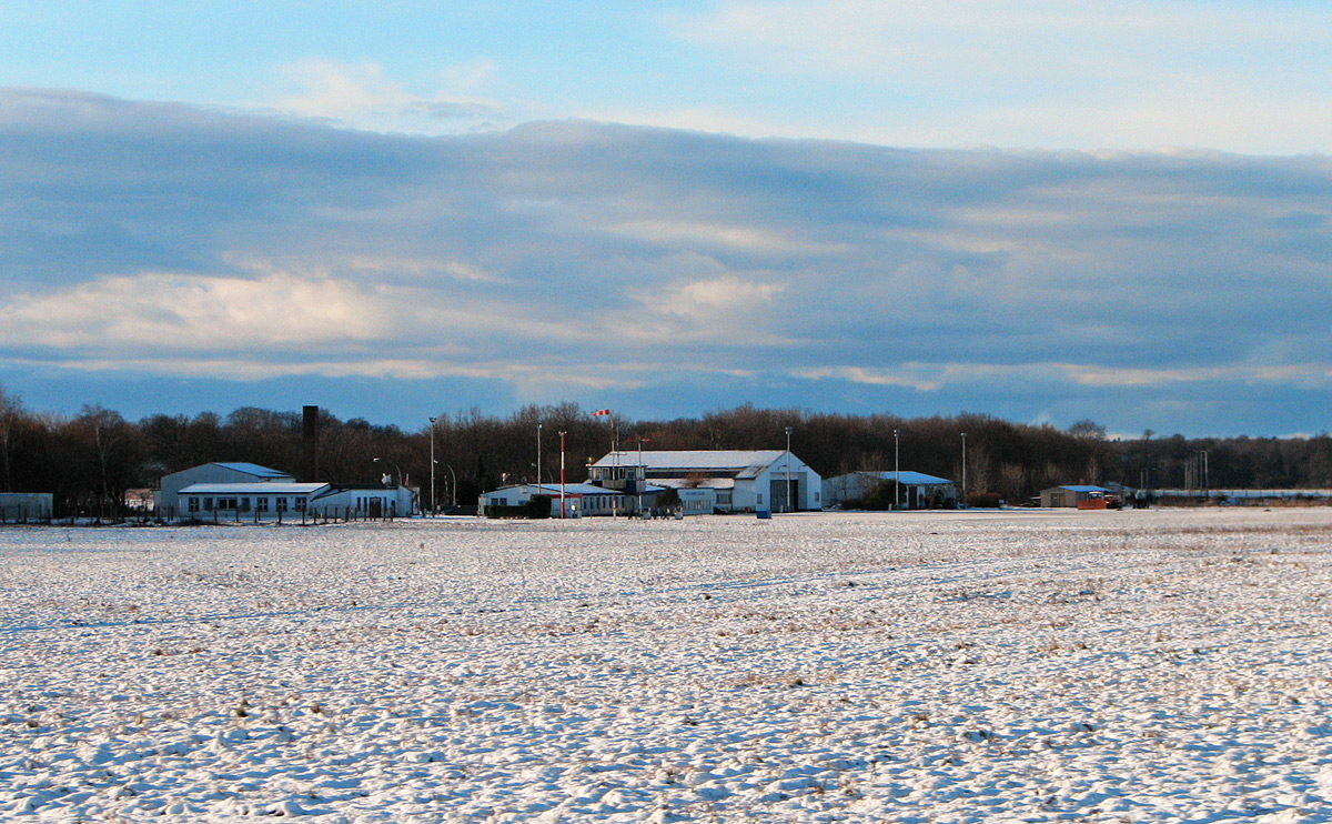 Barth Airport